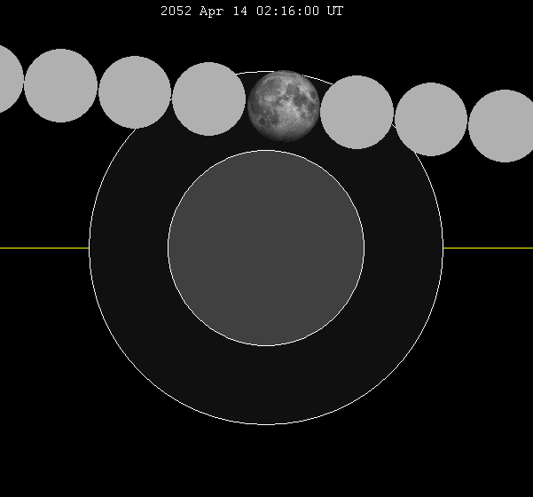 April 2052 lunar eclipse chart of moon's path through the earth's shadow. thumb